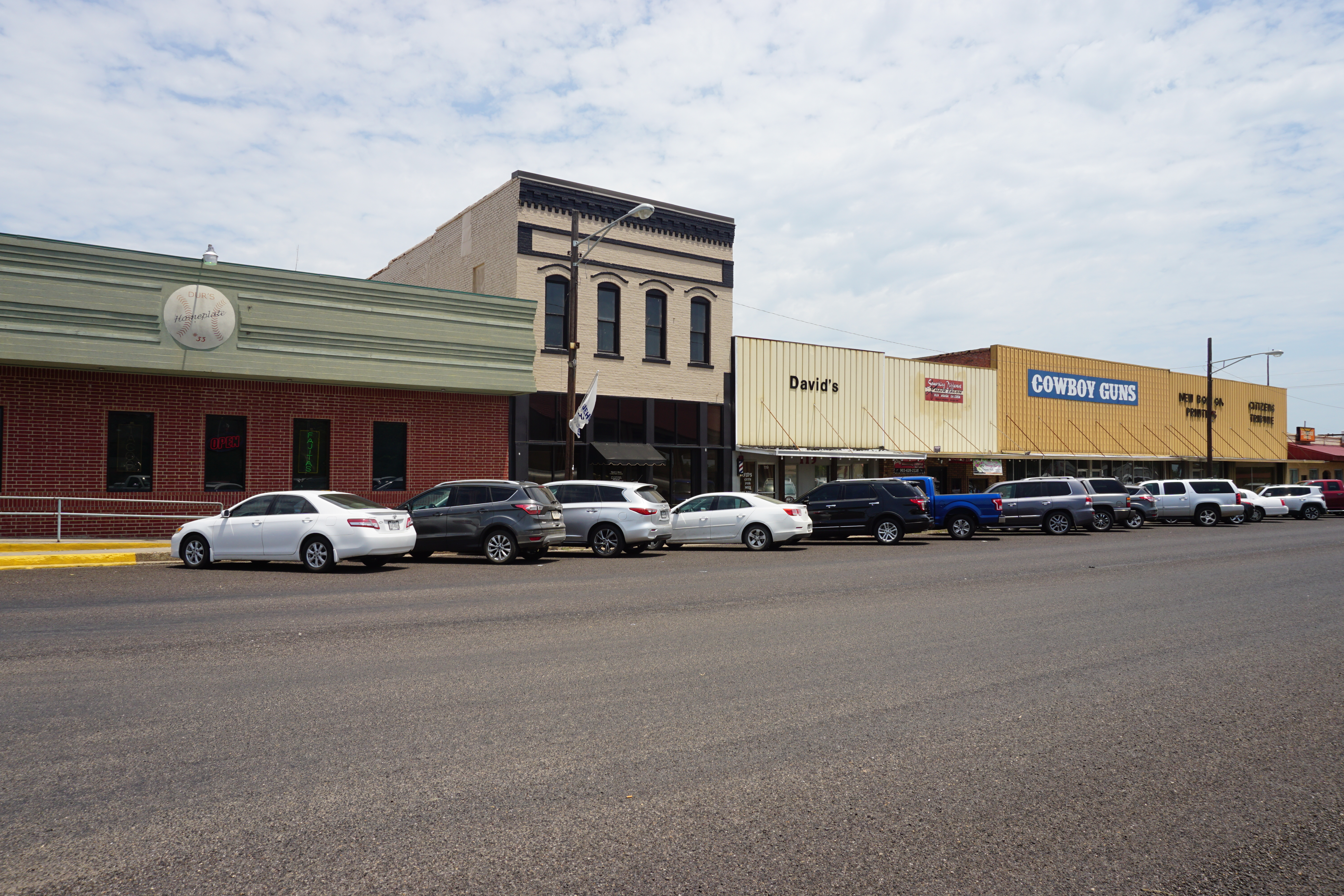 Northeast Front Street in New Boston, Texas (United States).